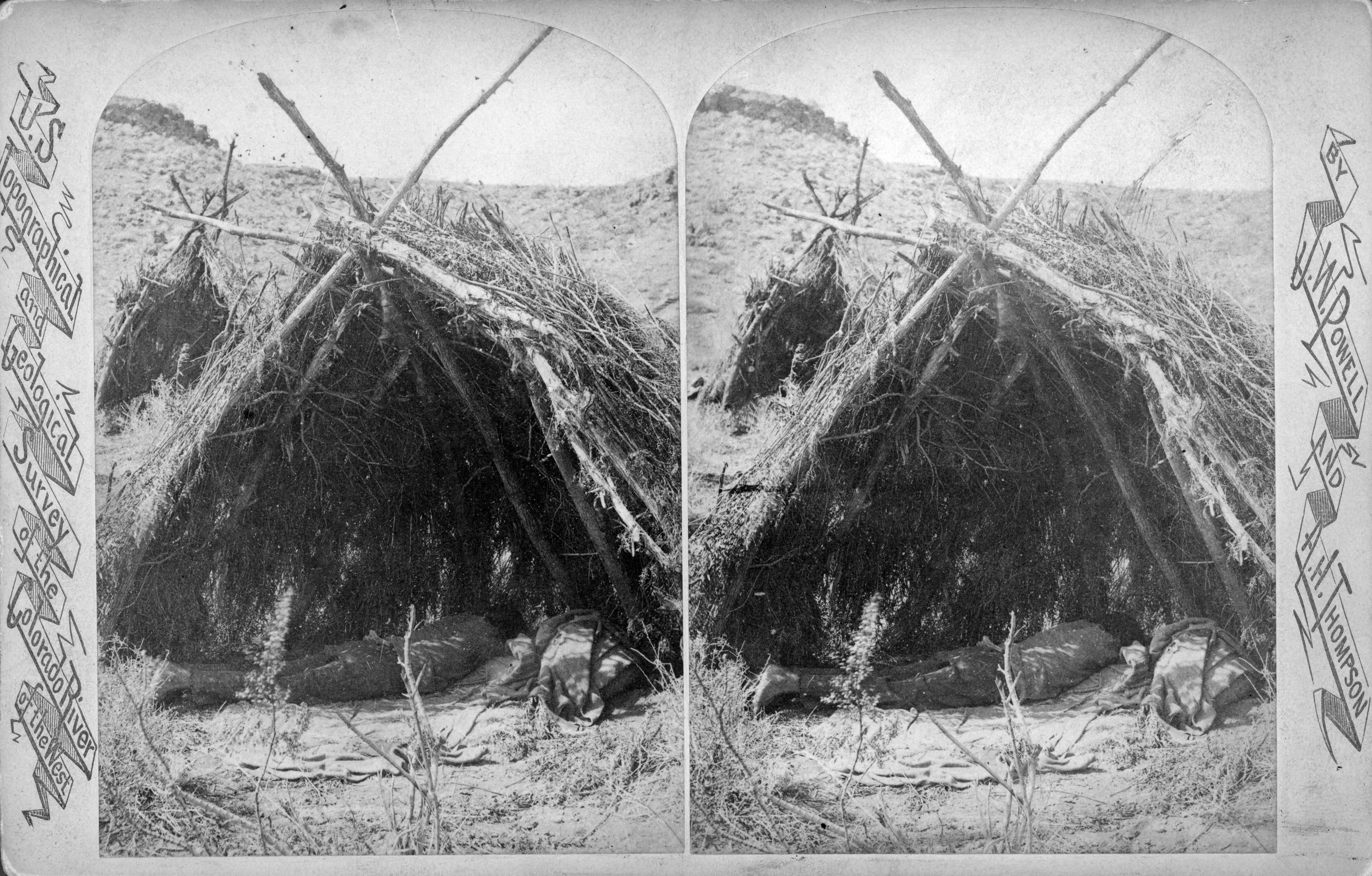 An unidentified Native American (Paiute) man sleeps on blankets inside of a wickiup; a small hut of branches over interlocking poles and an open side, southern Utah. Label on print: "Indians of the Colorado Valley. No. 43. U-ai nu-ints. A tribe of Indians living on the Rio Virgen, a tributary of the Colorado, in Southern Utah. Entered according to Act of Congress, in the year 1874, by J. W. Powell, in the Office of the Librarian of Congress, at Washington. Published by Wm. B. Holmes, 646 Broadway, New York."